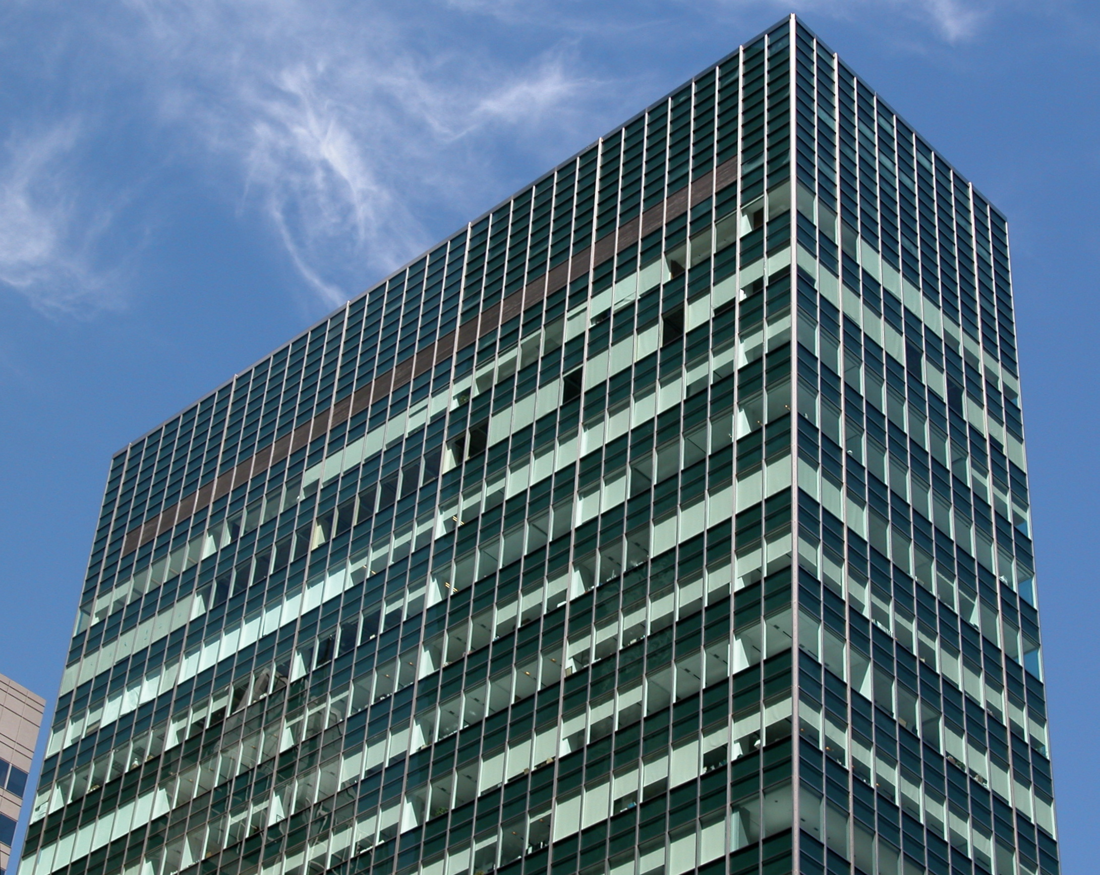 Lever House, in Manhattan. Architects: Skidmore Owings & Merrill Playtime, anyone? Licensing